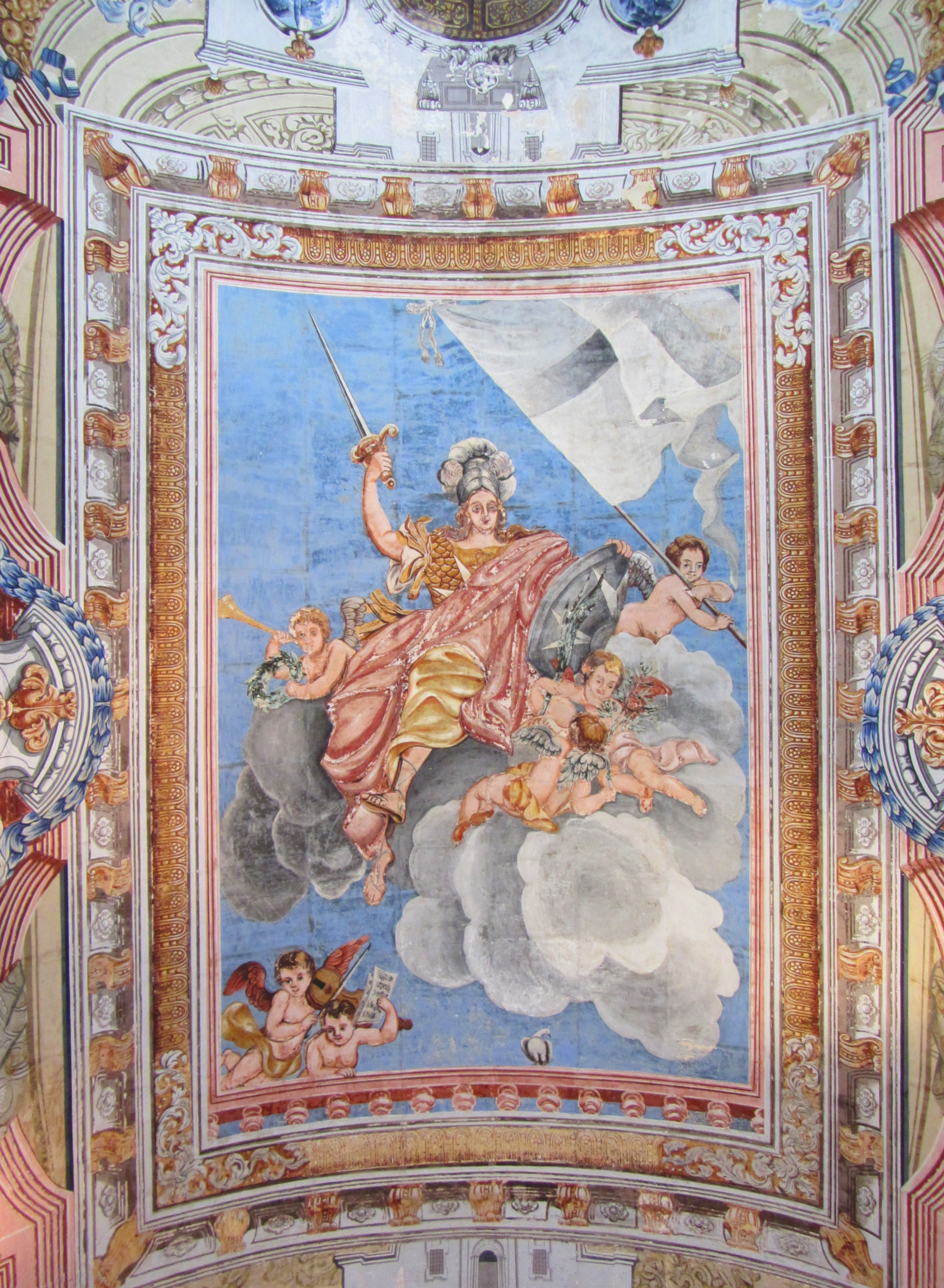 Auberge de Provence, Valletta, Malta: Painted ceiling